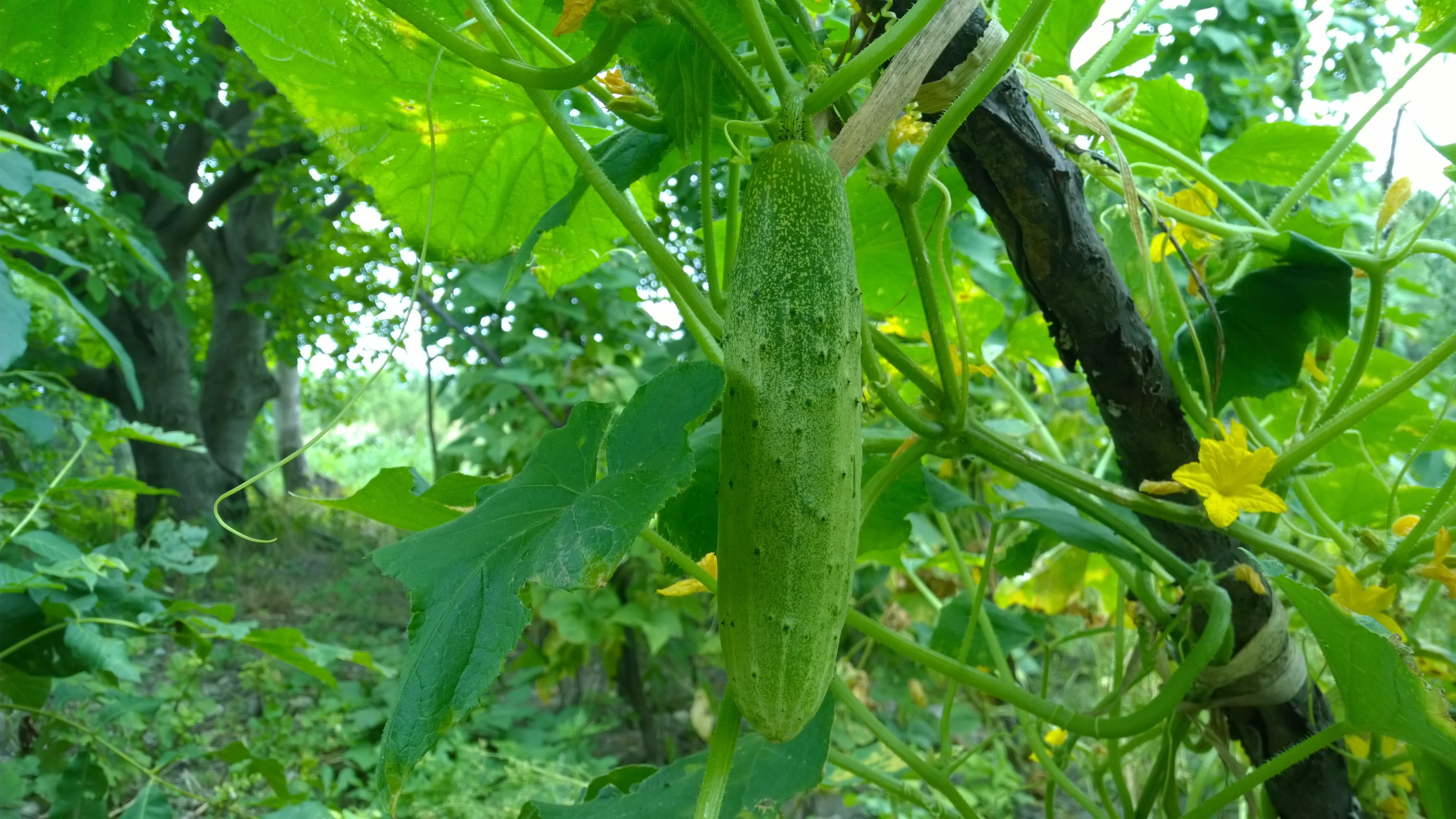 Cucumis sativus, Georgia (country), Akhmeta municipality